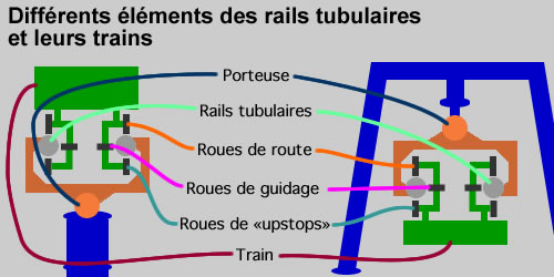 Different parts of tubular steel tracks and their trains. Drawing created by myself, Sam-Pig.